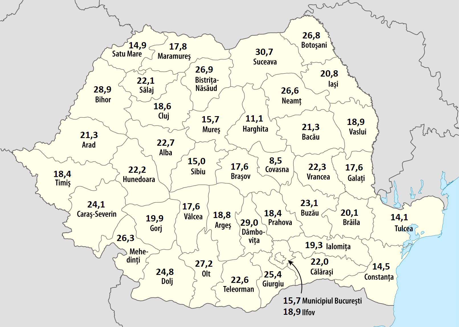 A map of turnout by county for the October 2018 Romanian marriage referendum